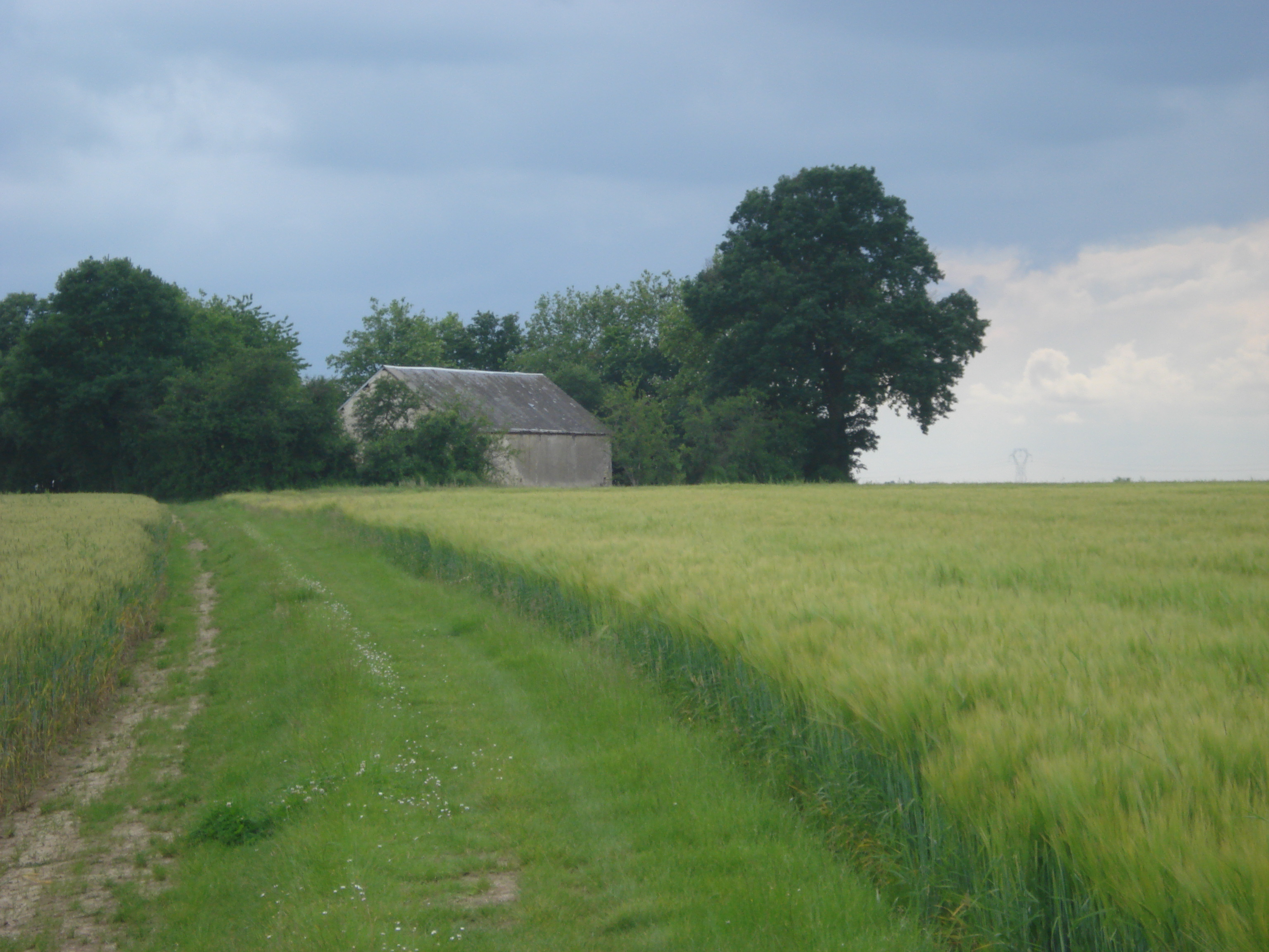 Landscape near Issoudun (Indre, Fr)